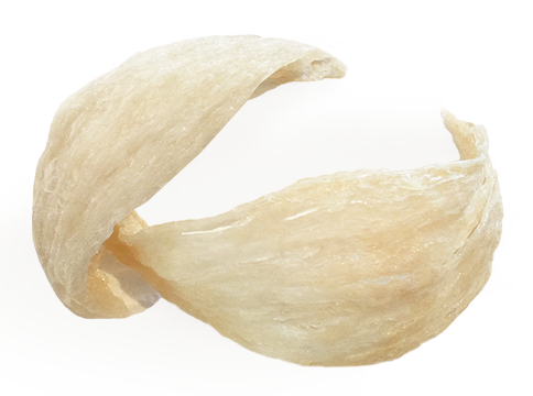 Raw Clean Edible Birds Nest Bowl Shape